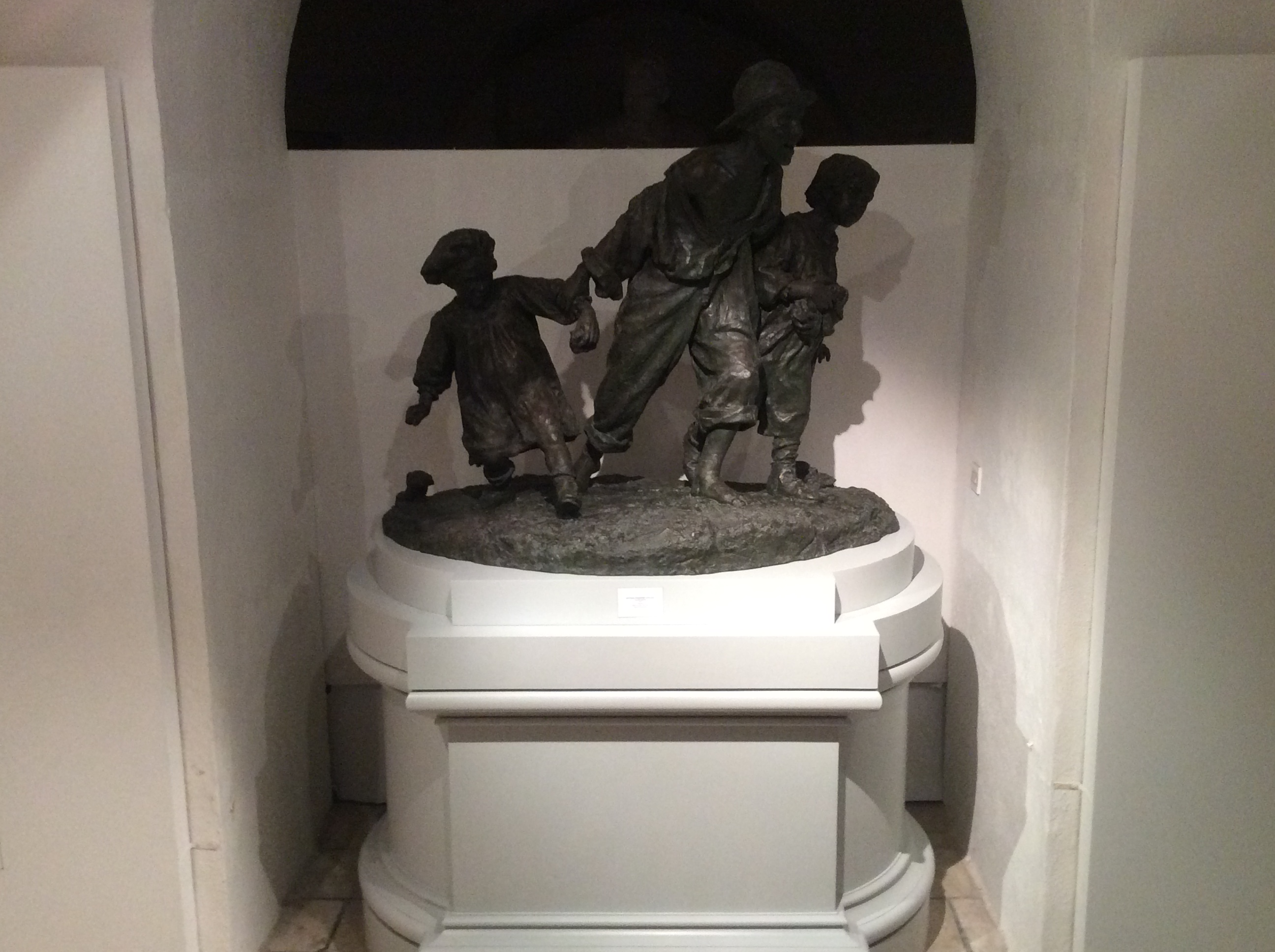 Admiralty House